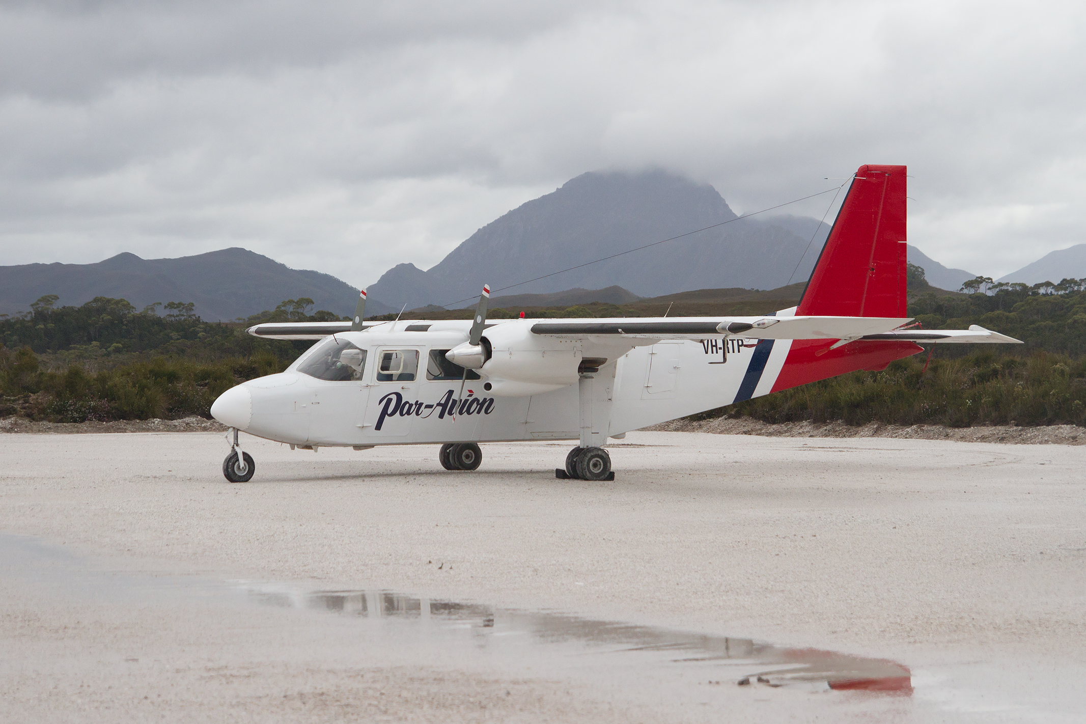 Britten-Norman BN-2 Islander on the Melaleuca Airstrip with Mount Rugby behind, Southwest Conservation Area, Tasmania, Australia